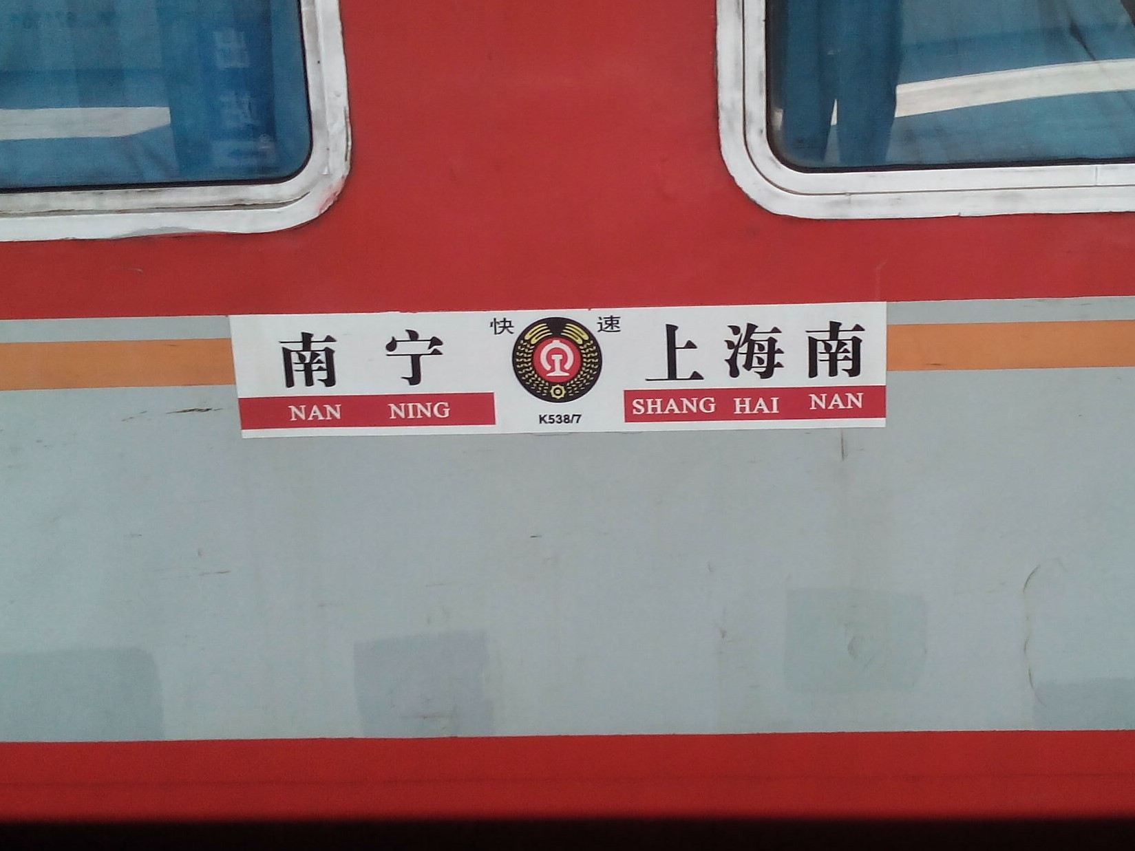 Currently T25/6. Taken at Jinhua Station.